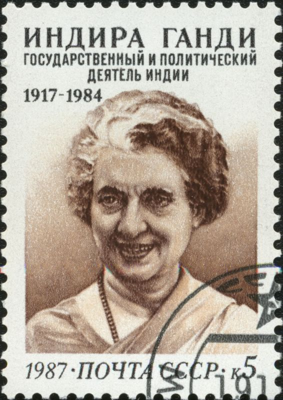 A USSR stamp, 70th Birth Anniversary of Indira Gandhi. Date of issue: 19th November 1987. Designer: V. Nikitin Michel catalogue number: 5771. 5 K. reddish brown and black. Portrait of Indian prime-minister (1966-77 and 1980-84) Indira Gandhi (1917-1984).